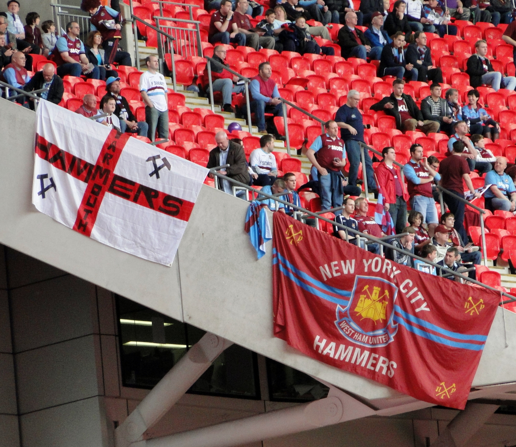 Flag of New York City West Ham supporters, play-off final Wembley May 2012